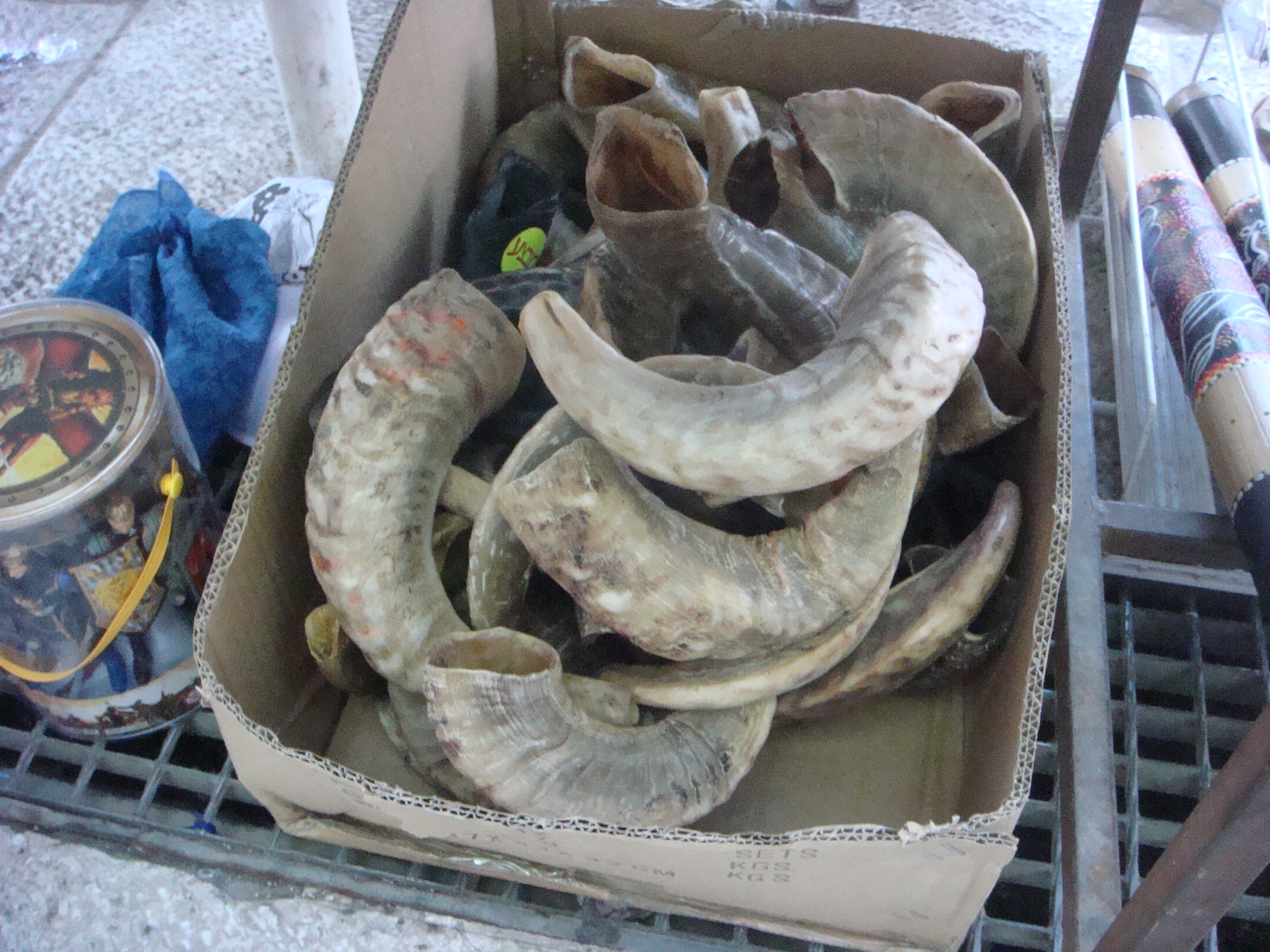 Jewish tomb complex held us the tomb of Rabbi Meir in Tiberias, Israel.